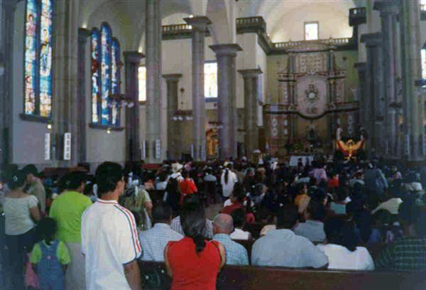 Festival for the Virgin of Suyapa, patron saint of Honduras, in Suyapa Sanctury in Tegucigalpa, Honduras